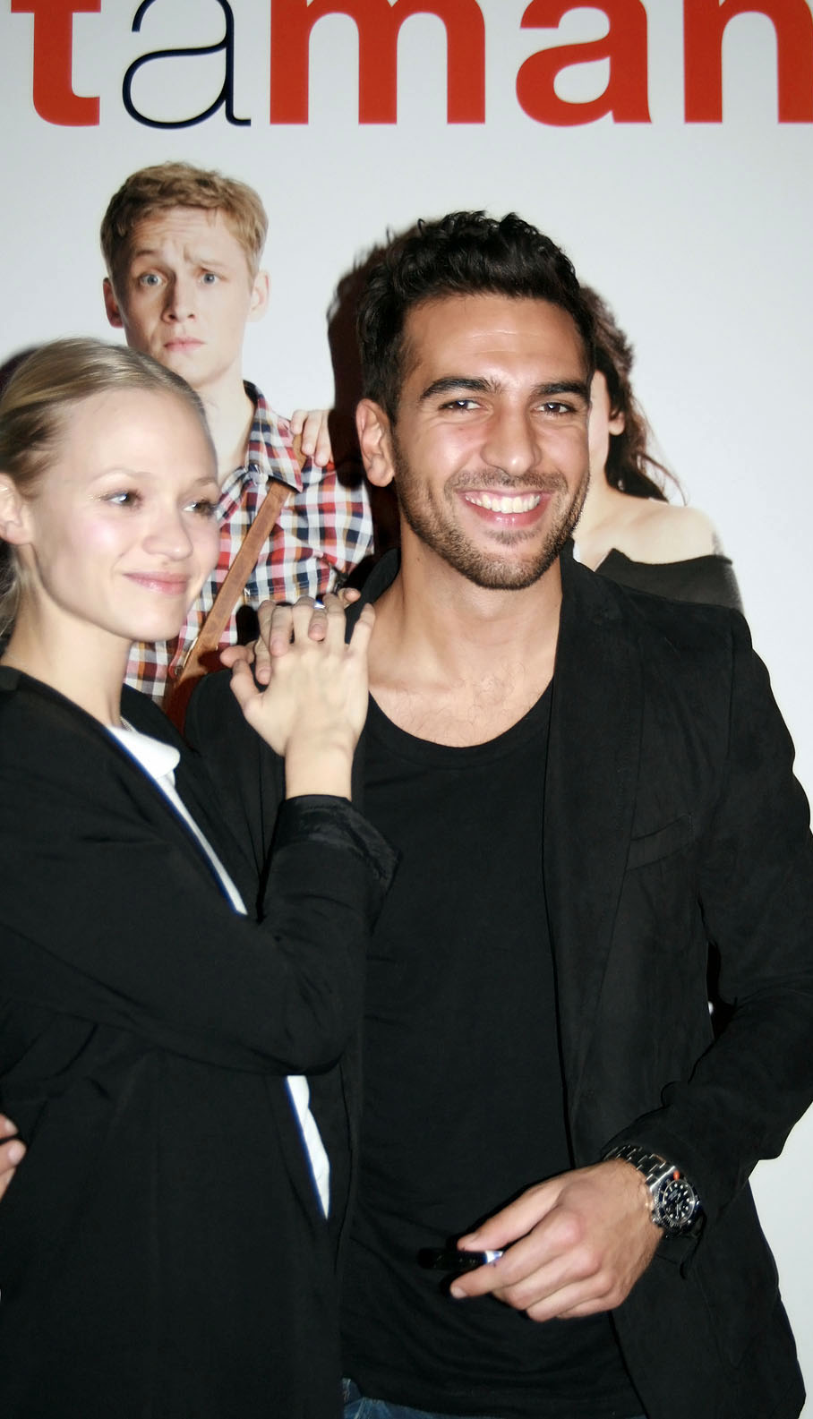 Mavie Hörbiger and Elyas M'Barek at the Austrian premiere of What a Man (Gasometer, Vienna).